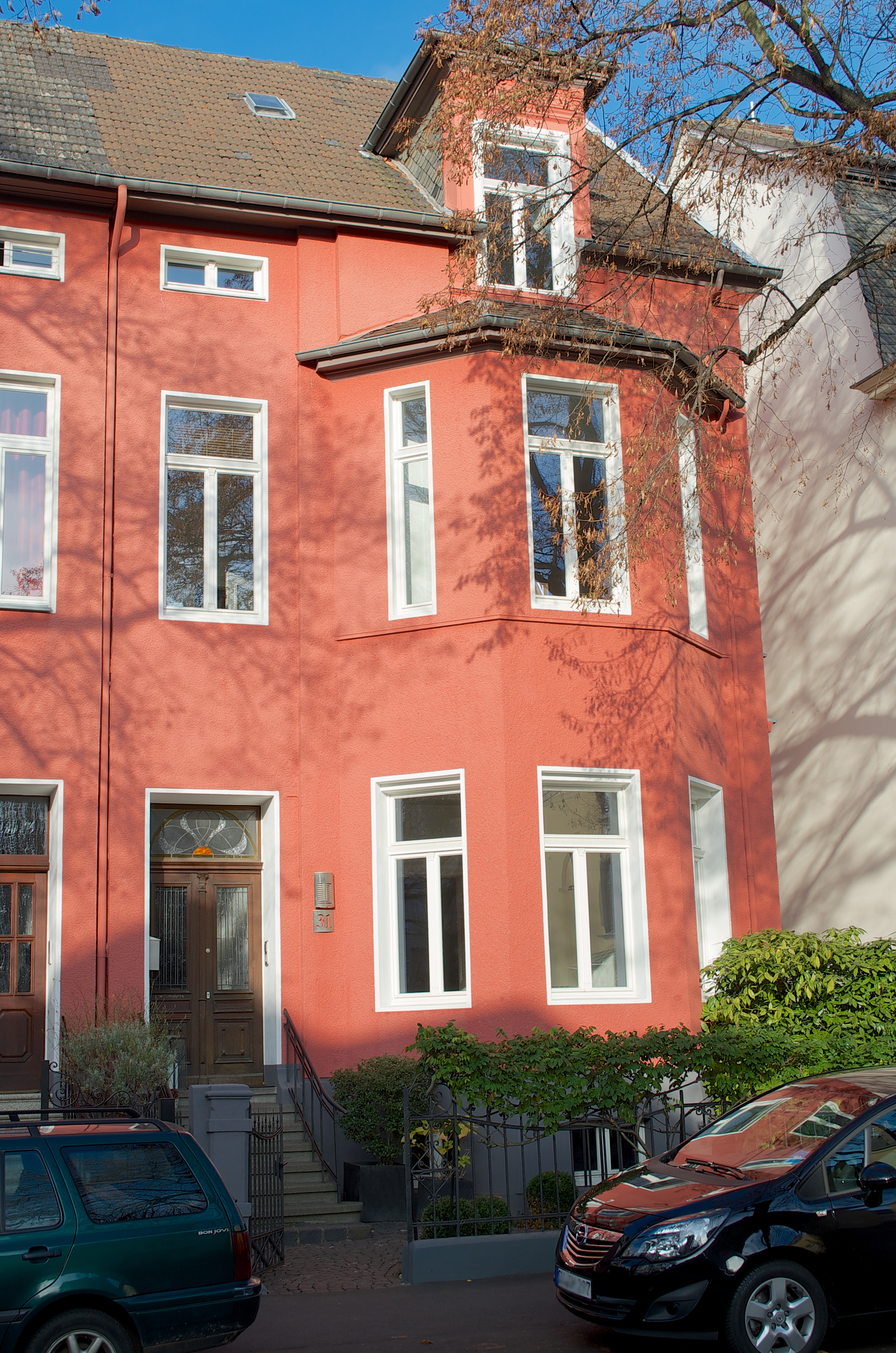 Cultural heritage monument in Bad Godesberg, Rüngsdorfer Straße 31